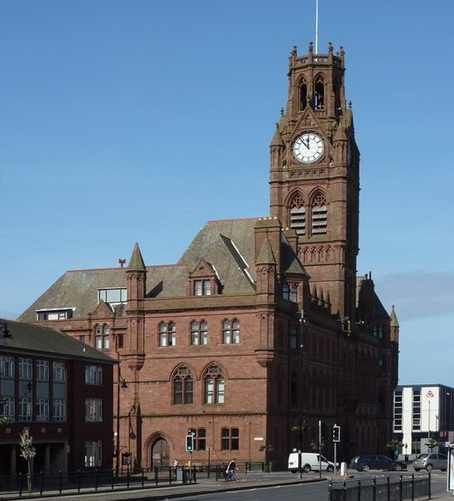 Barrow-in-Furness Town Hall, United Kingdom, April 2011